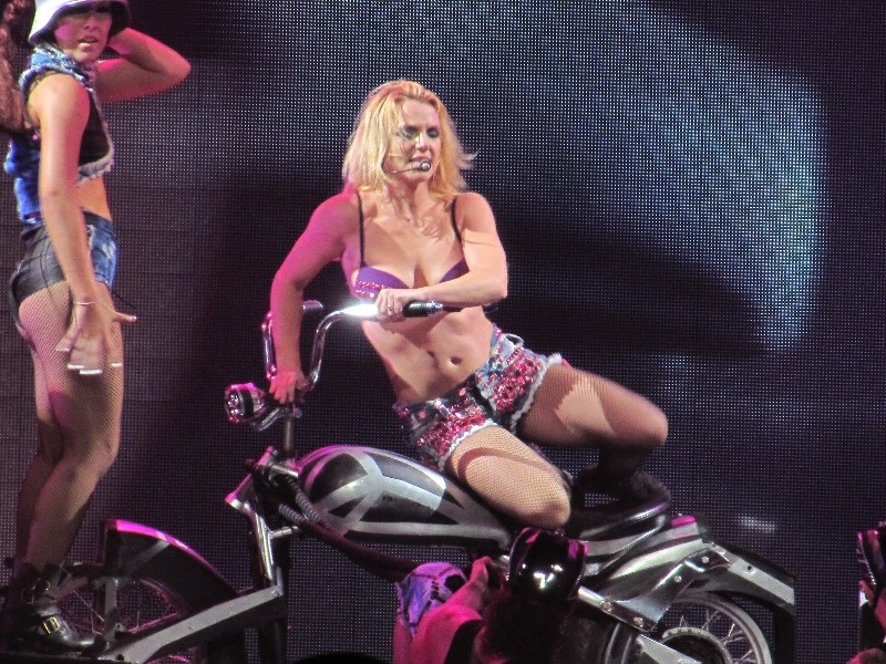 Spears performing "S&M" at the Femme Fatale Tour.